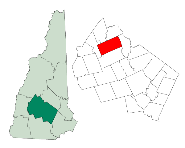 Map of a municipality in Merrimack County, New Hampshire